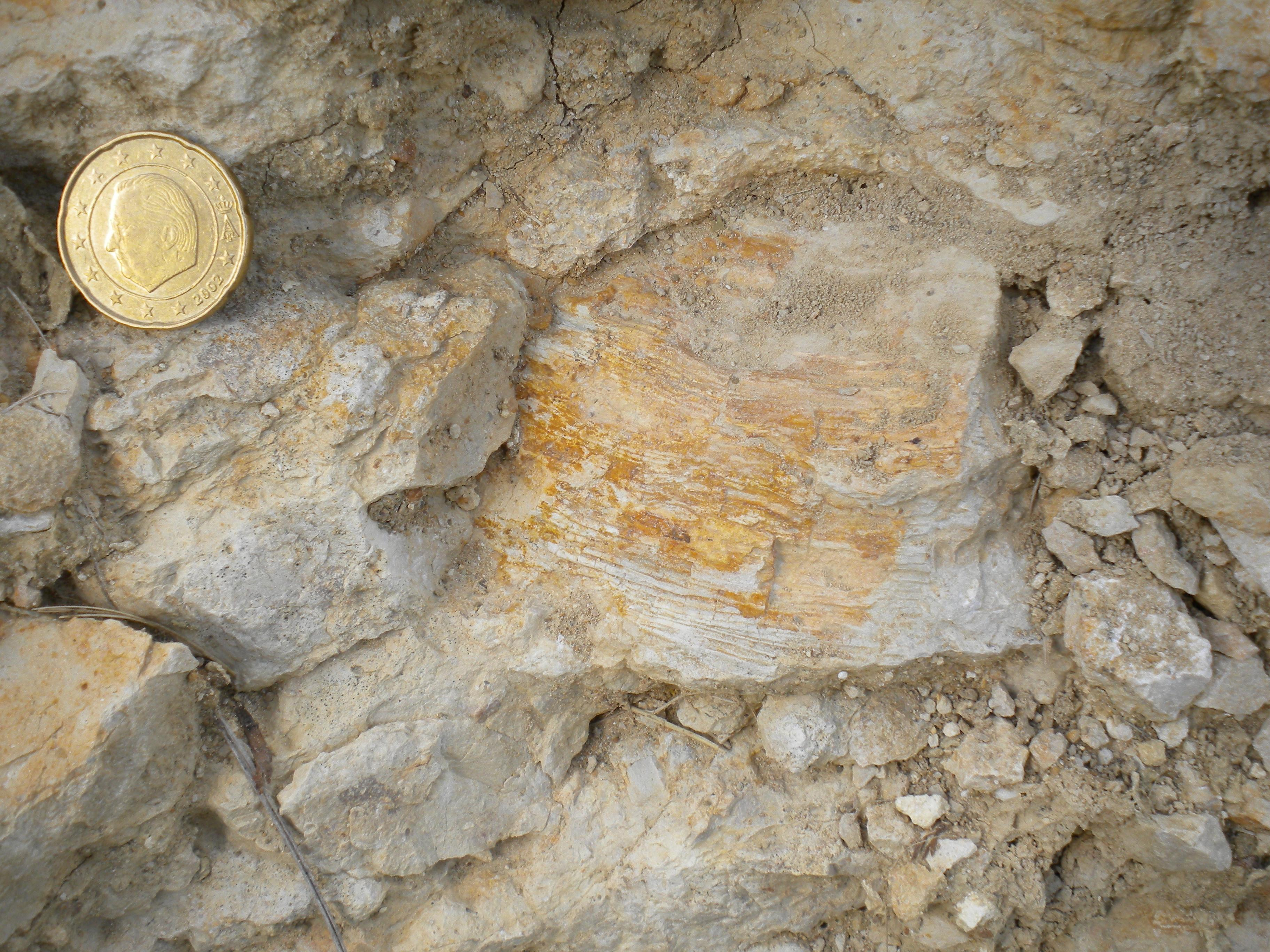 Horizontally slickensided Ligerian (Lower Turonian) of the northern Aquitaine basin sequence. Photo taken just southeast of Mareuil (south of the Telecom tower), Dordogne, France.